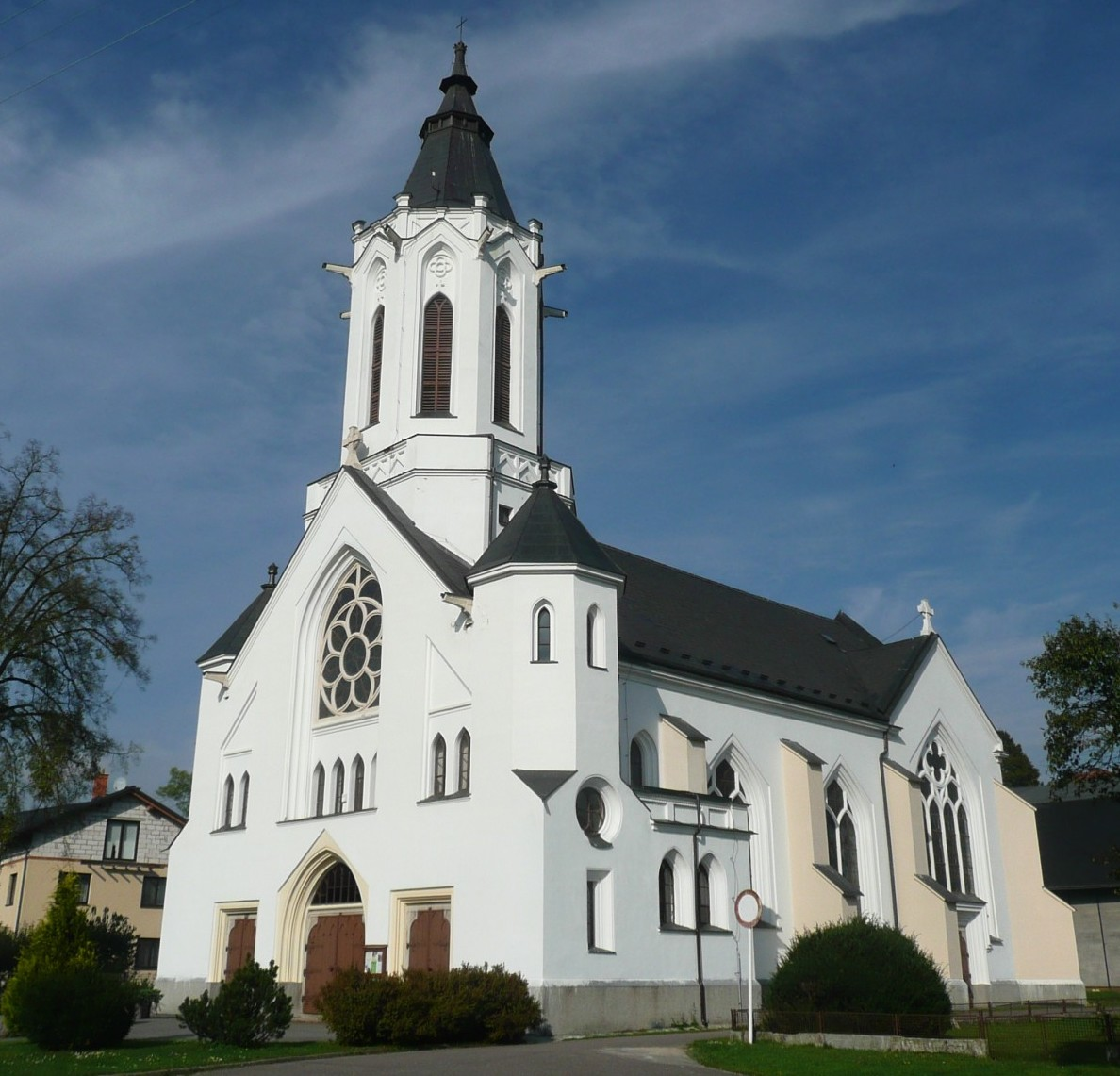 St. Procopius Church in Dlouha Trebova